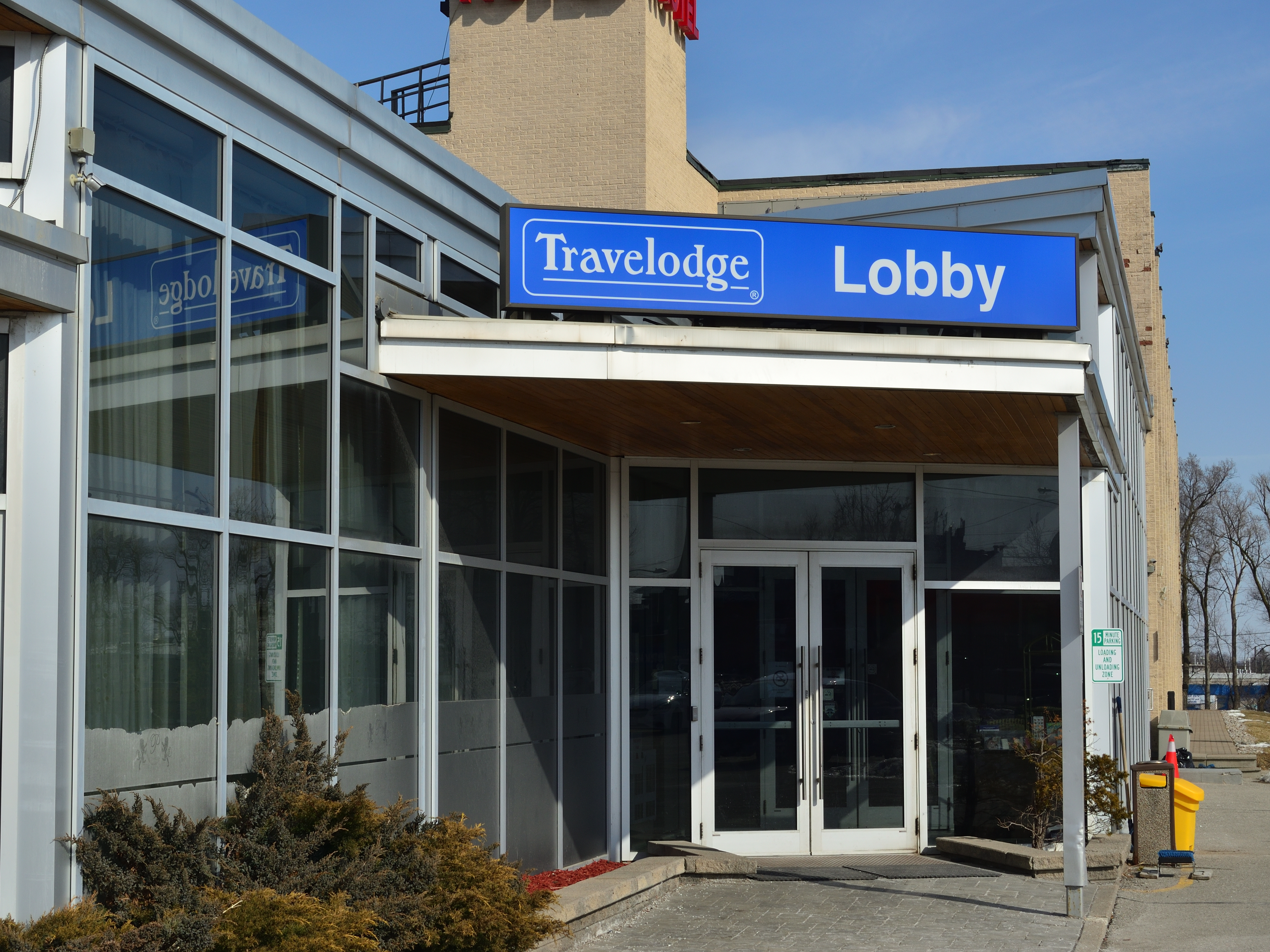 Travelodge by Wyndham Richmond Hill - Address: 10711 Yonge St, Richmond Hill, ON L4C 3E1